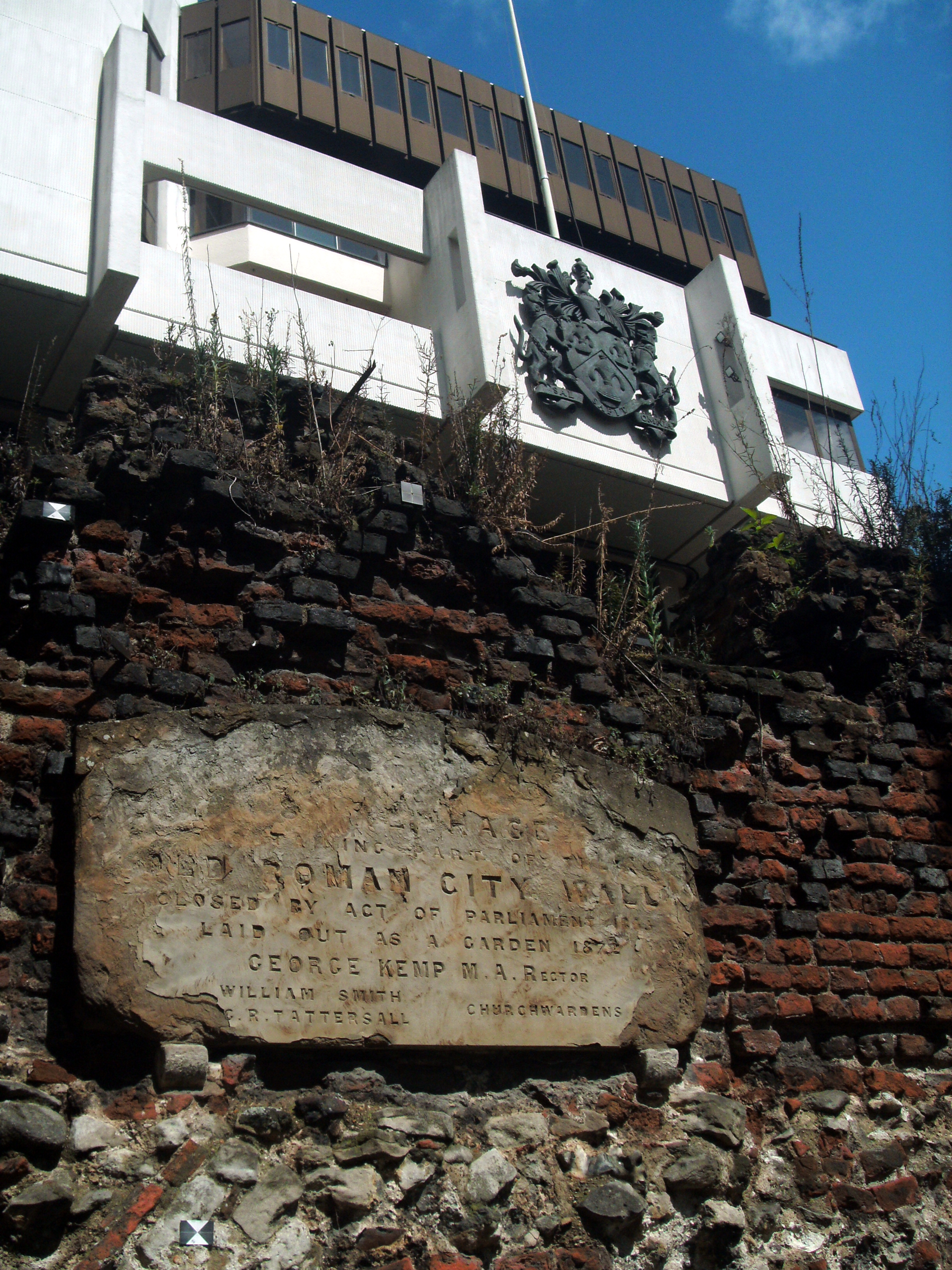 St Alphage Garden, City of London. A plaque mounted on the wall from the churchyard's conversion into a garden in 1872. Salters' Hall stands behind the wall.